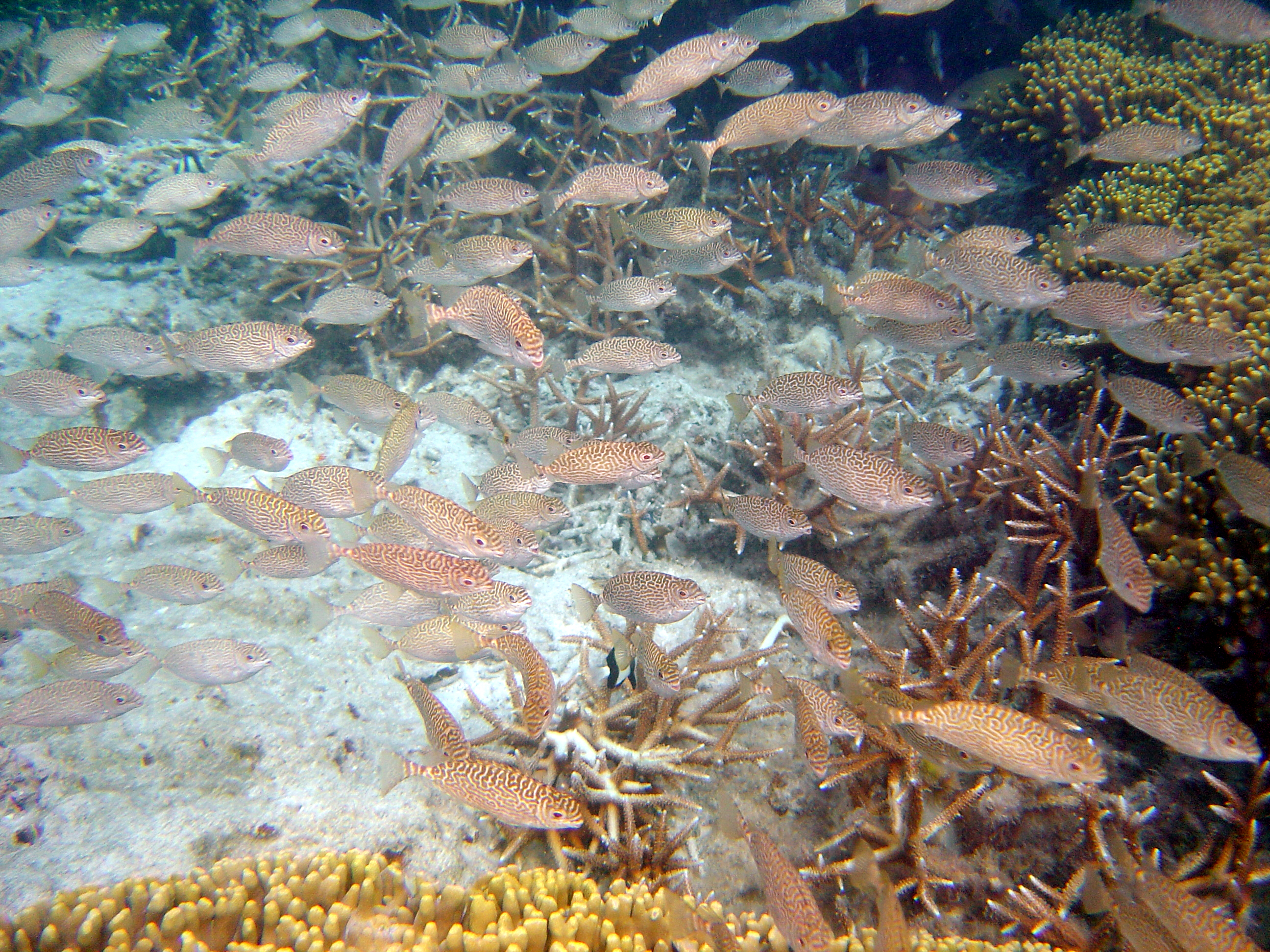 Siganus spinus Image ID: reef0948, NOAA's Coral Kingdom Collection Location: Guam, Mariana Islands